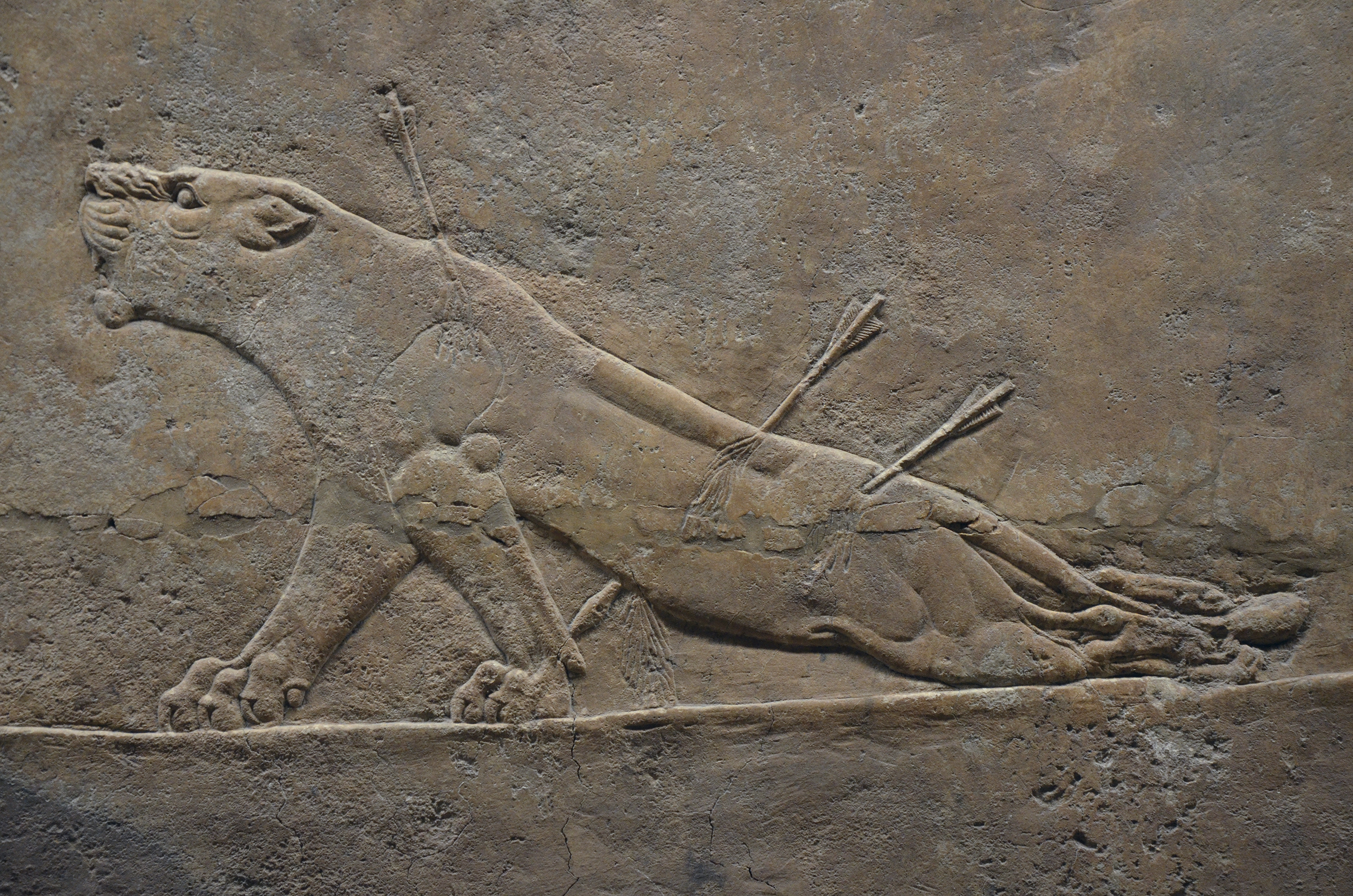 Sculpted reliefs depicting Ashurbanipal, the last great Assyrian king, hunting lions, gypsum hall relief from the North Palace of Nineveh (Irak), c. 645-635 BC, British Museum